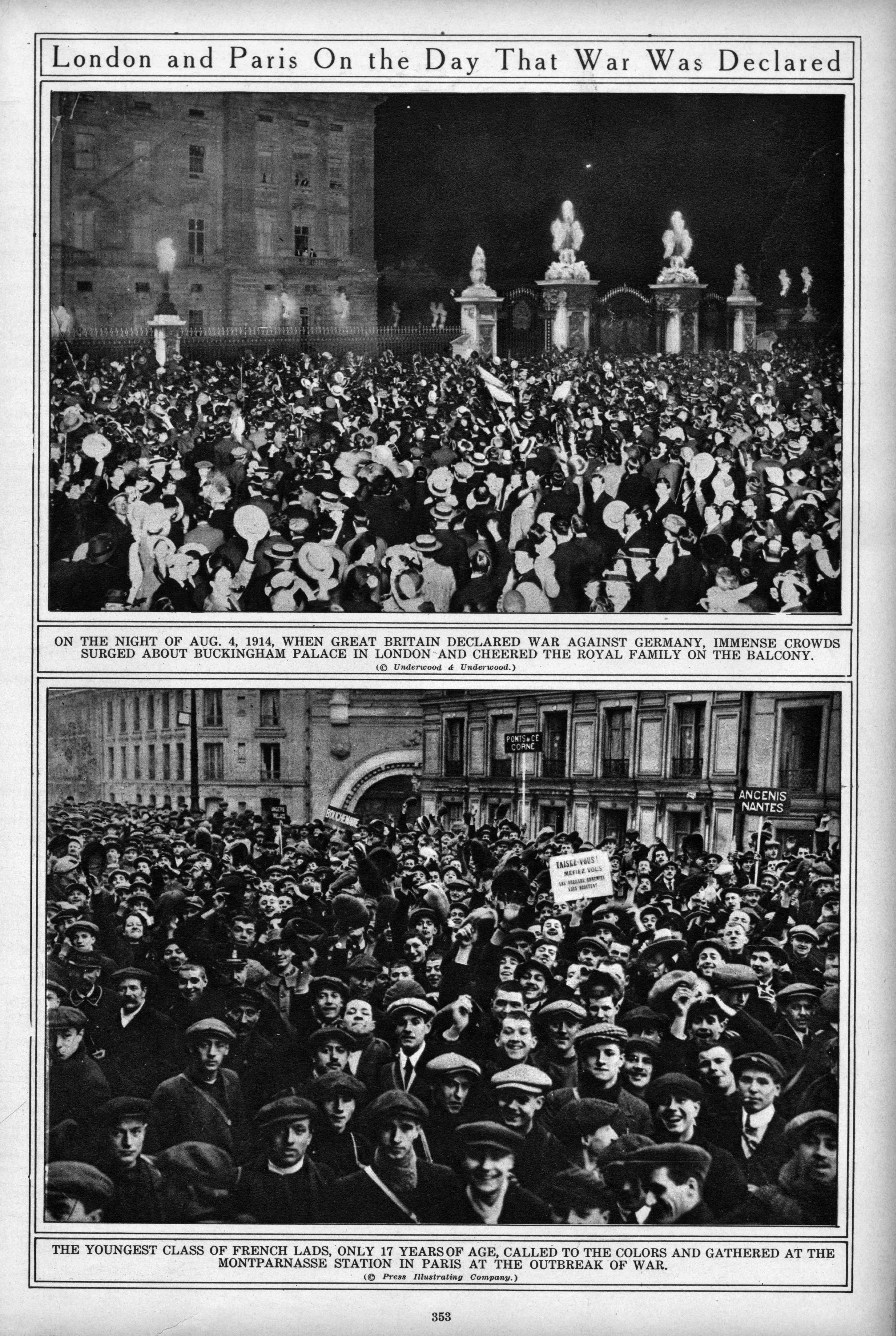 London and Paris On the Day That War Was Declared. ON THE NIGHT OF AUG. 4, 1914, WHEN GREAT BRITAIN DECLARED WAR AGAINST GERMANY, IMMENSE CROWDS SURGED ABOUT BUCKINGHAM PALACE IN LONDON AND CHEERED THE ROYAL FAMILY ON THE BALCONY. THE YOUNGEST CLASS OF FRENCH LADS, ONLY 17 YEARS OF AGE, CALLED TO THE COLORS AND GATHERED AT THE MONTPARNASSE STATION IN PARIS AT THE OUTBREAK OF WAR. ========================================= The war of the nations: portfolio in rotogravure etchings: compiled from the Mid-week pictorial. New York: New York Times, Co, 1919. Book. Retrieved from the Library of Congress, (Accessed November 08, 2016.) Images from "The War of the Nations : Portfolio in Rotogravure Etchings : Compiled from the Mid-Week Pictorial" (New York : New York Times, Co., 1919) Notes: Selected from "The War of the Nations: Portfolio in Rotogravure Etchings," published by the New York Times shortly after the 1919 armistice. This portfolio compiled selected images from their "Mid-Week Pictorial" newspaper supplements of 1914-19. 528 p. : chiefly ill. ; 42 cm.; Subjects: World War, 1914-1918 --Pictorial works. New York--New York Format: Rotogravures --1910-1920. Rights Info: No known restrictions on reproduction Repository: Library of Congress, Serials and Government Publications Division, Washington, D.C. 20540 Part Of: Newspaper Pictorials: World War I Rotogravures, 1914-1919 (DLC) sgpwar 19191231 General information about the Newspaper Pictorials: World War I Rotogravures, 1914-1919 digital collection is available at